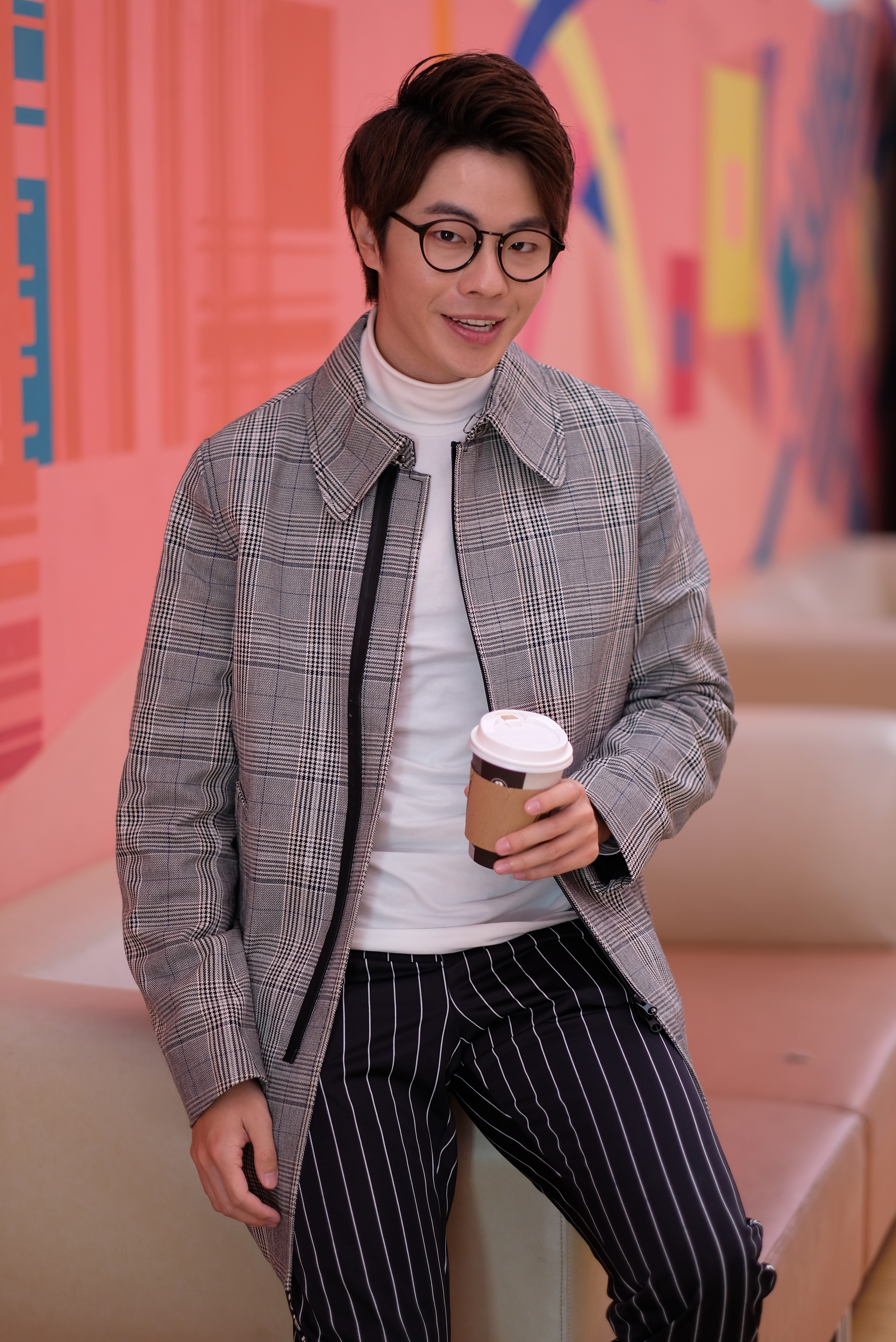 A KOL of the TVB J2 programme, "Young And Restless"